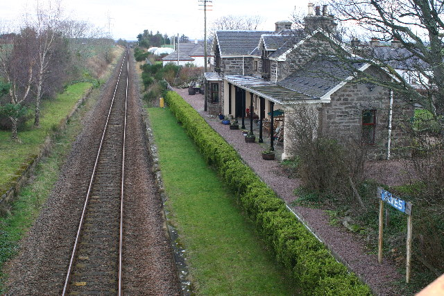 The old station at Alves. Now a private house. Looking W from position